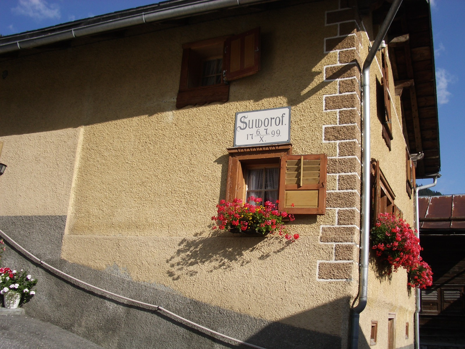 Panix GR, Switzerland